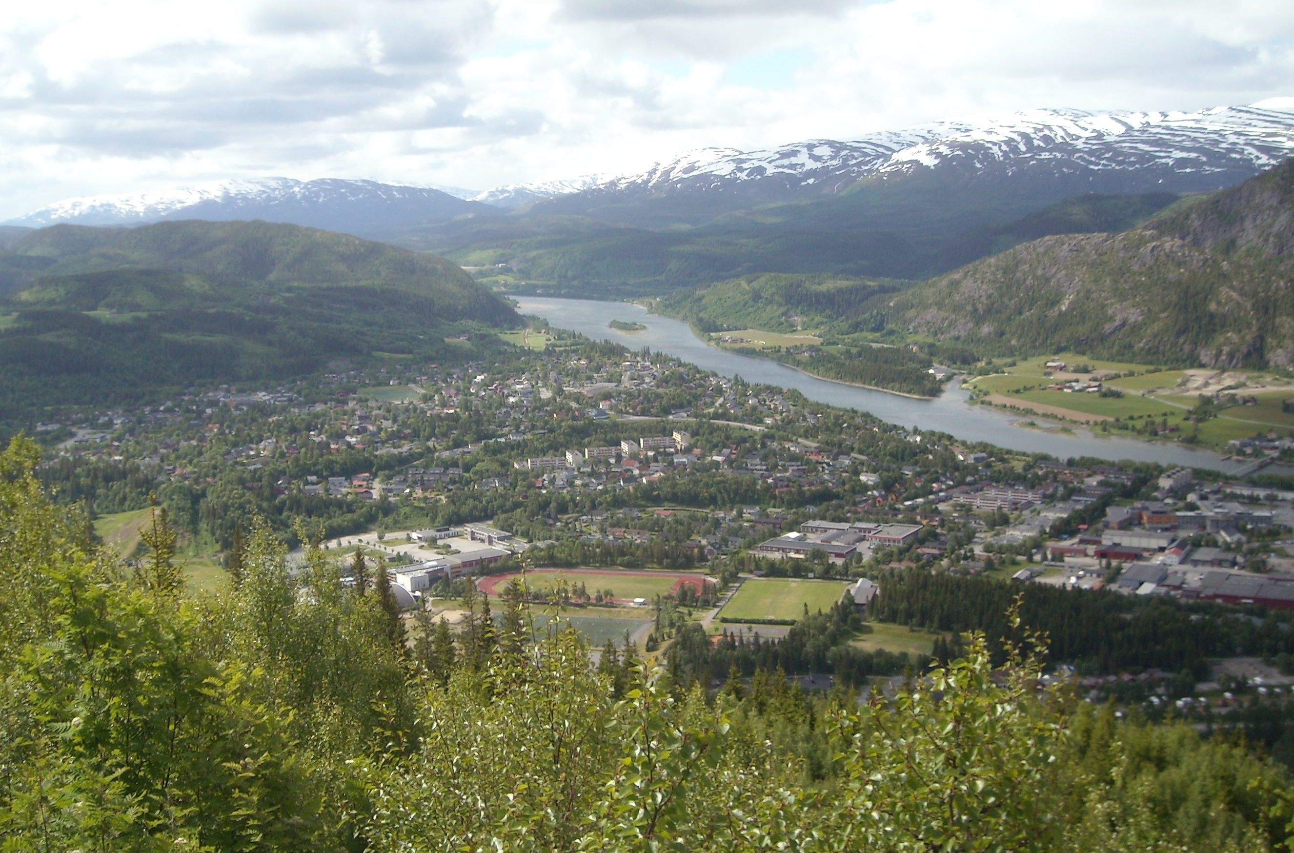 Olderskog, Trudvang/Helvete, Kippermoen and Nyrud, Mosjøen.